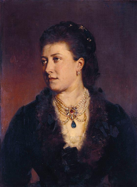 Princess Helena, Princess Christian of Schleswig-Holstein is shown with head and shoulders to the front and looking to the left. She wears a purple evening dress lined with fur, a pearl necklace, and a dramatic jewelled clasp and pendant.